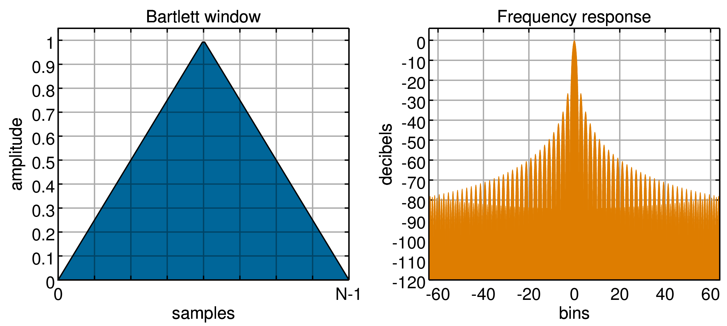 Bartlett window and frequency response